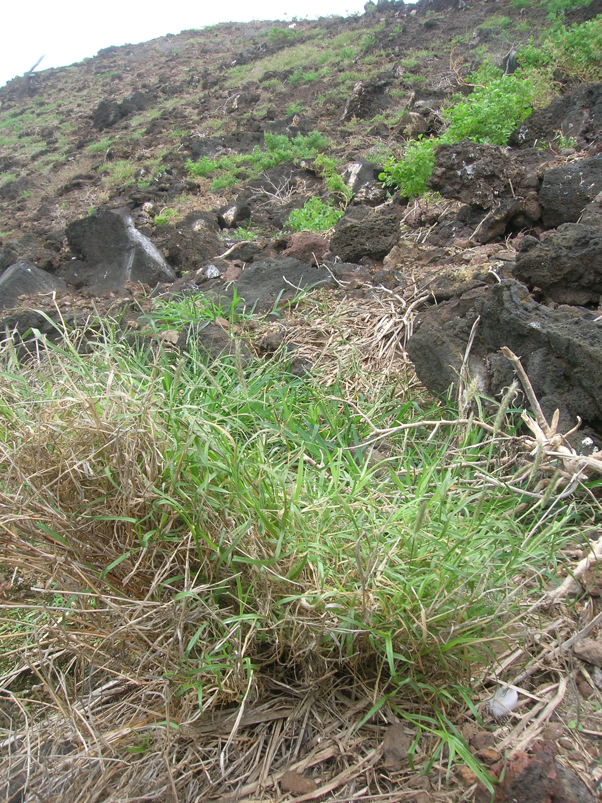 Cenchrus ciliaris (clump). Location: Oahu, Moku Manu